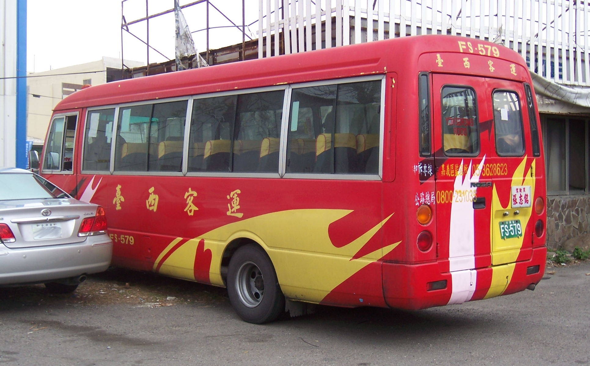 A bus owned by Taisi Bus Company. It's taken at Mailiao Township, Yunlin County, Taiwan.